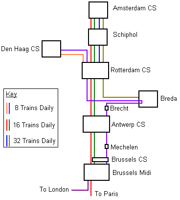 Map of services to be provided by NS Hispeed on HSL Zuid line